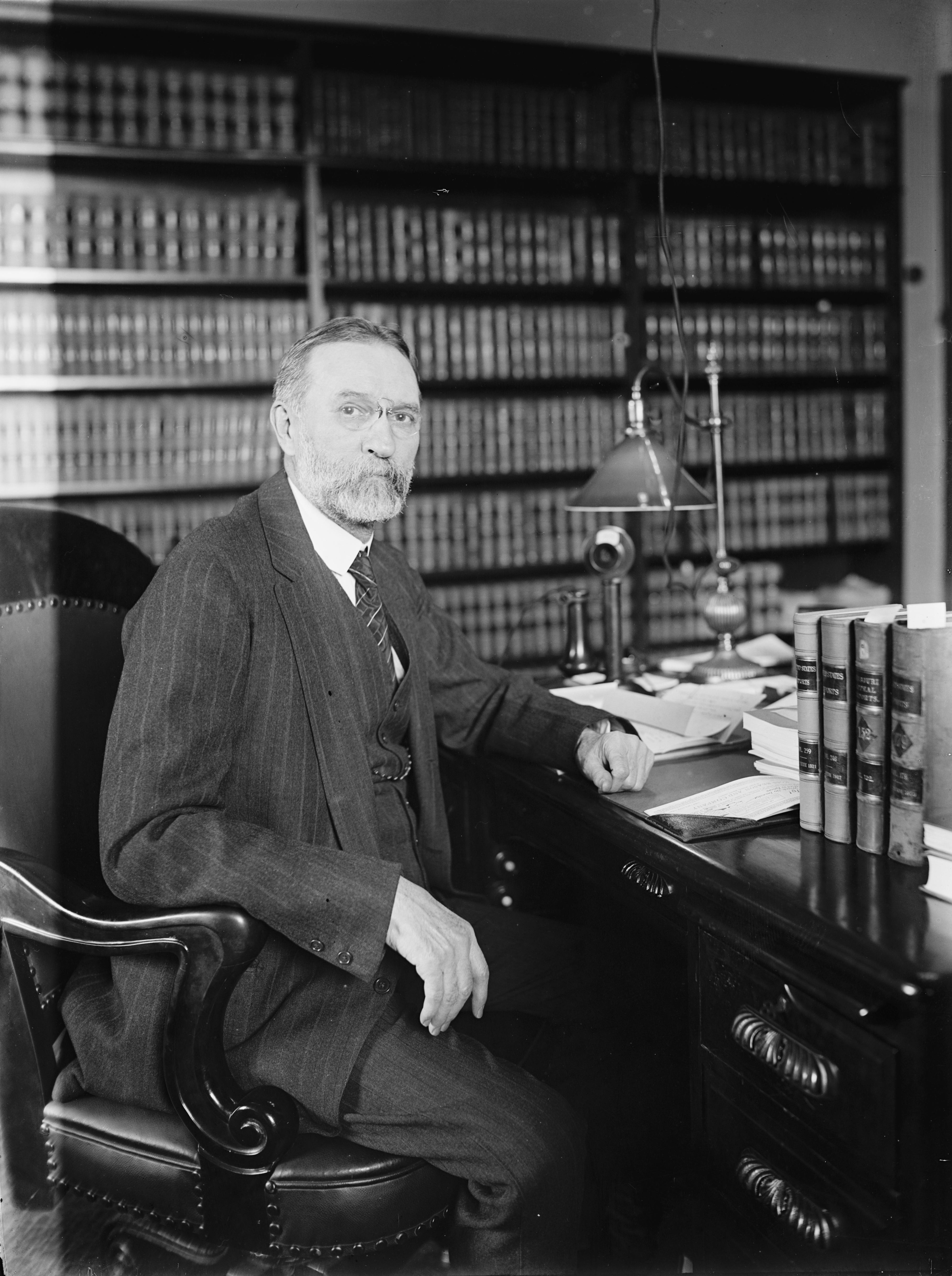 Associate Justice George Sutherland of the United States Supreme Court